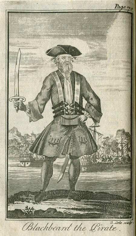 "Blackbeard the Pyrate," from "A General History of the Pyrates," by Charles Johnson, Daniel Defoe. Engraved by Benjamin Cole. Image courtesy of the North Carolina Collection, University of North Carolina Libraries.